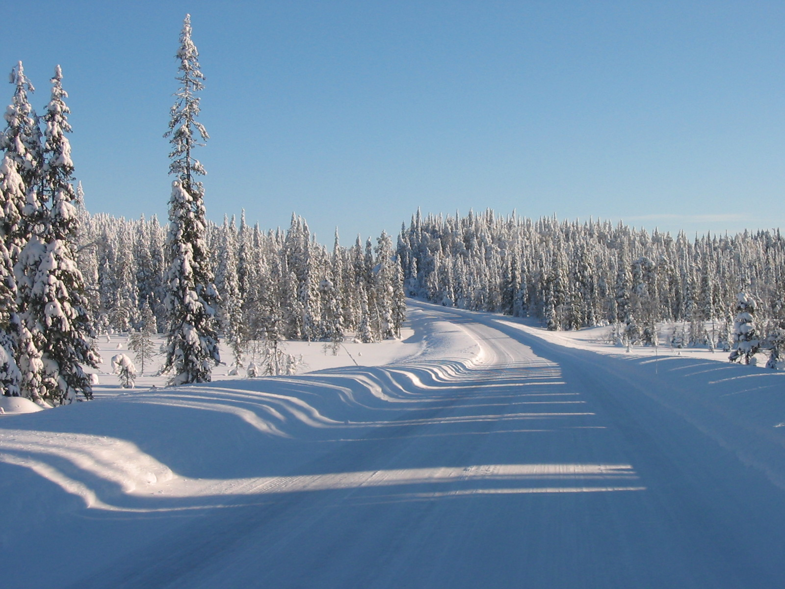 A snowy road in Kelankylä, Ranua, Finland